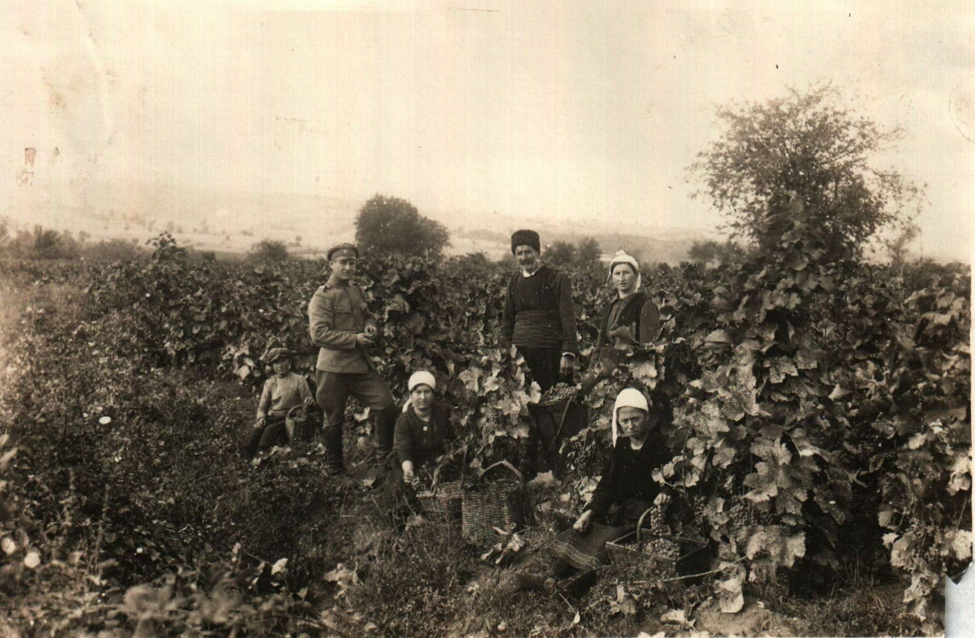 Grape picking in Çatalca, Drama region.